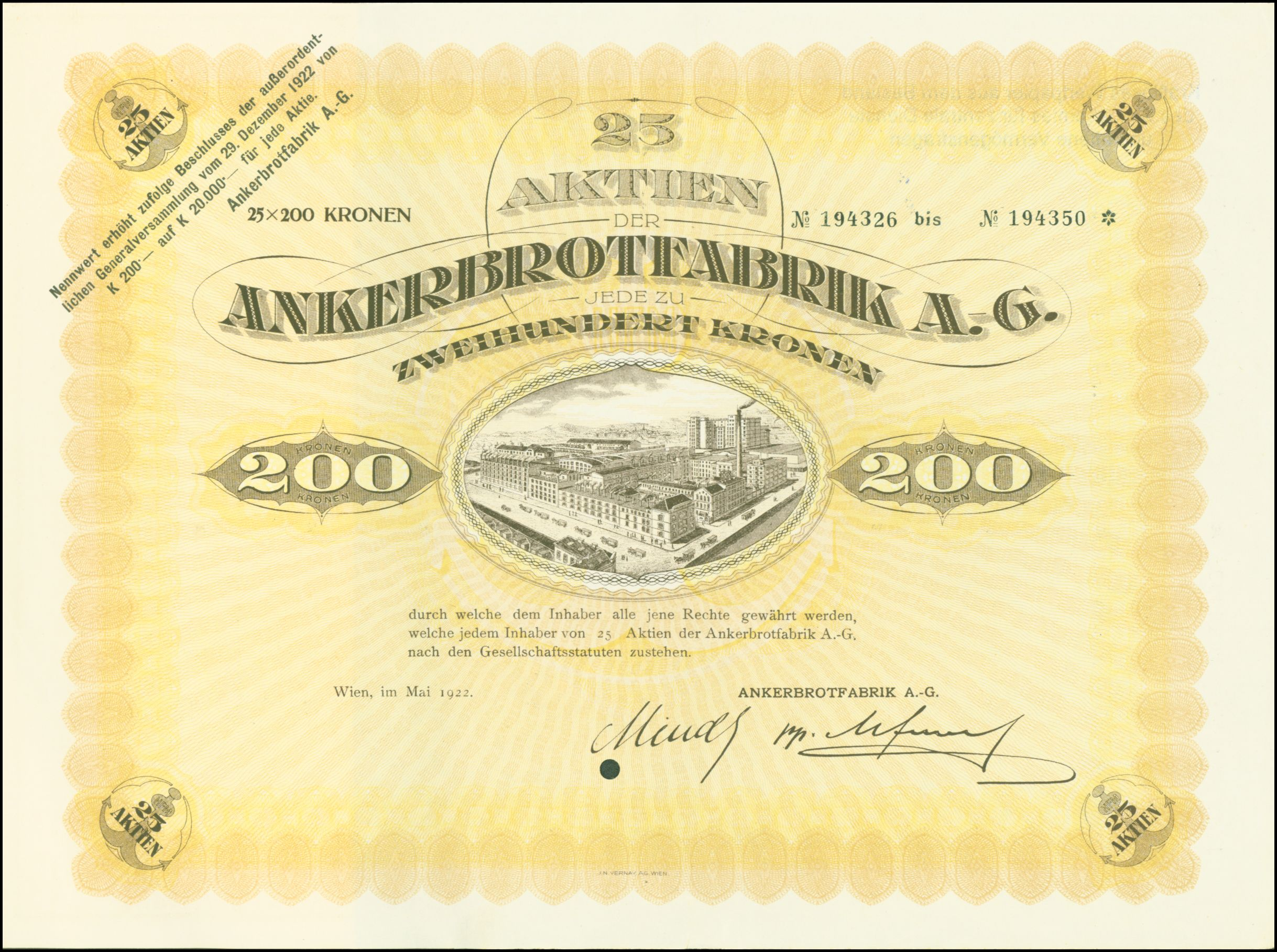 Share of the Ankerbrotfabrik, issued in May 1922